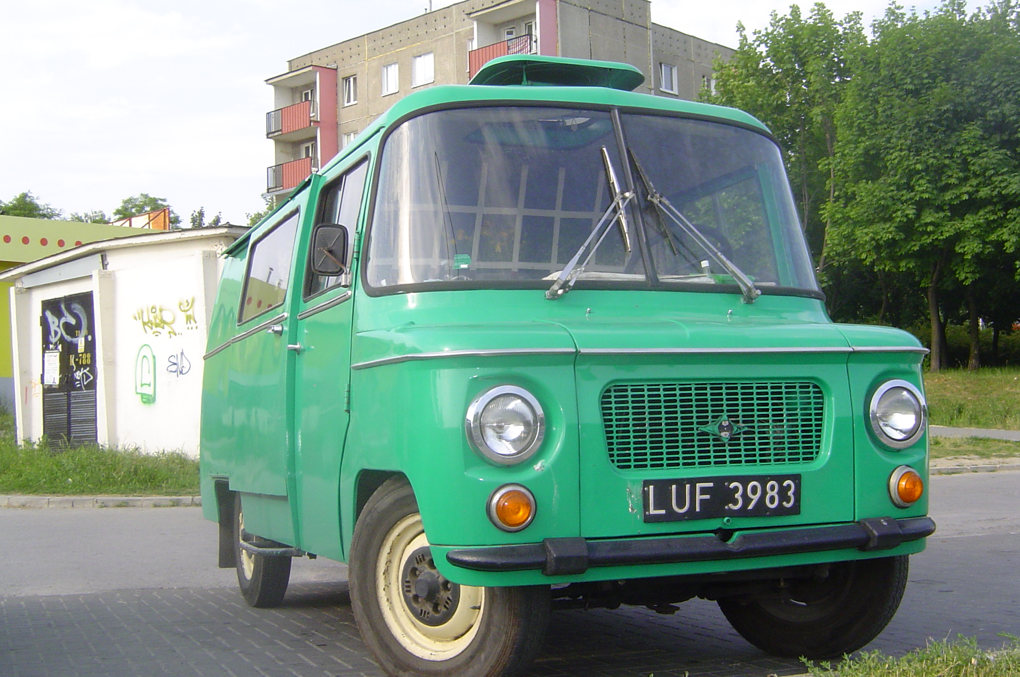 Green Nysa 521 or 522.